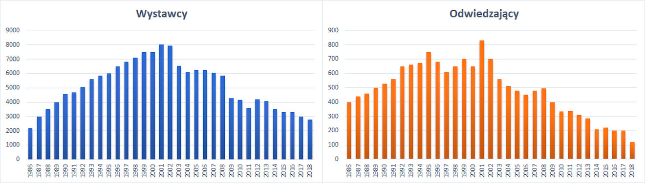 Infographic Number od exhibitors nad visitors on CeBIT 1986-2018